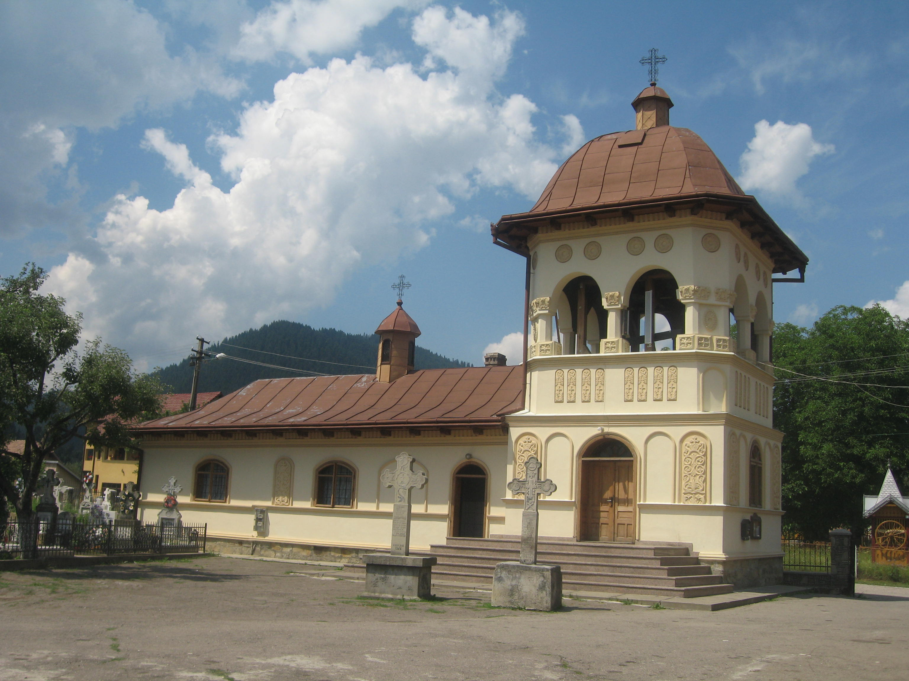 Wooden church in Câmpulung Moldovenesc, Romania